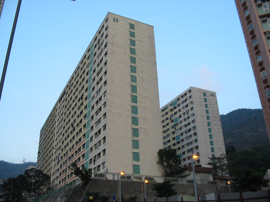 Block 10 and 11, Shek Lei Estate. Currently used for interim housing.